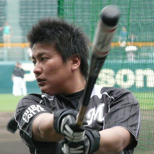 LM-Kim-Taekyun20100525